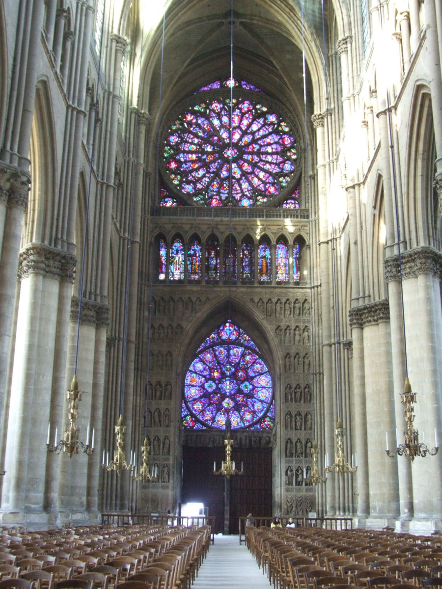 Cathedral Notre-Dame de Reims, France - Interior - Nave looking west showing 2 rose windows